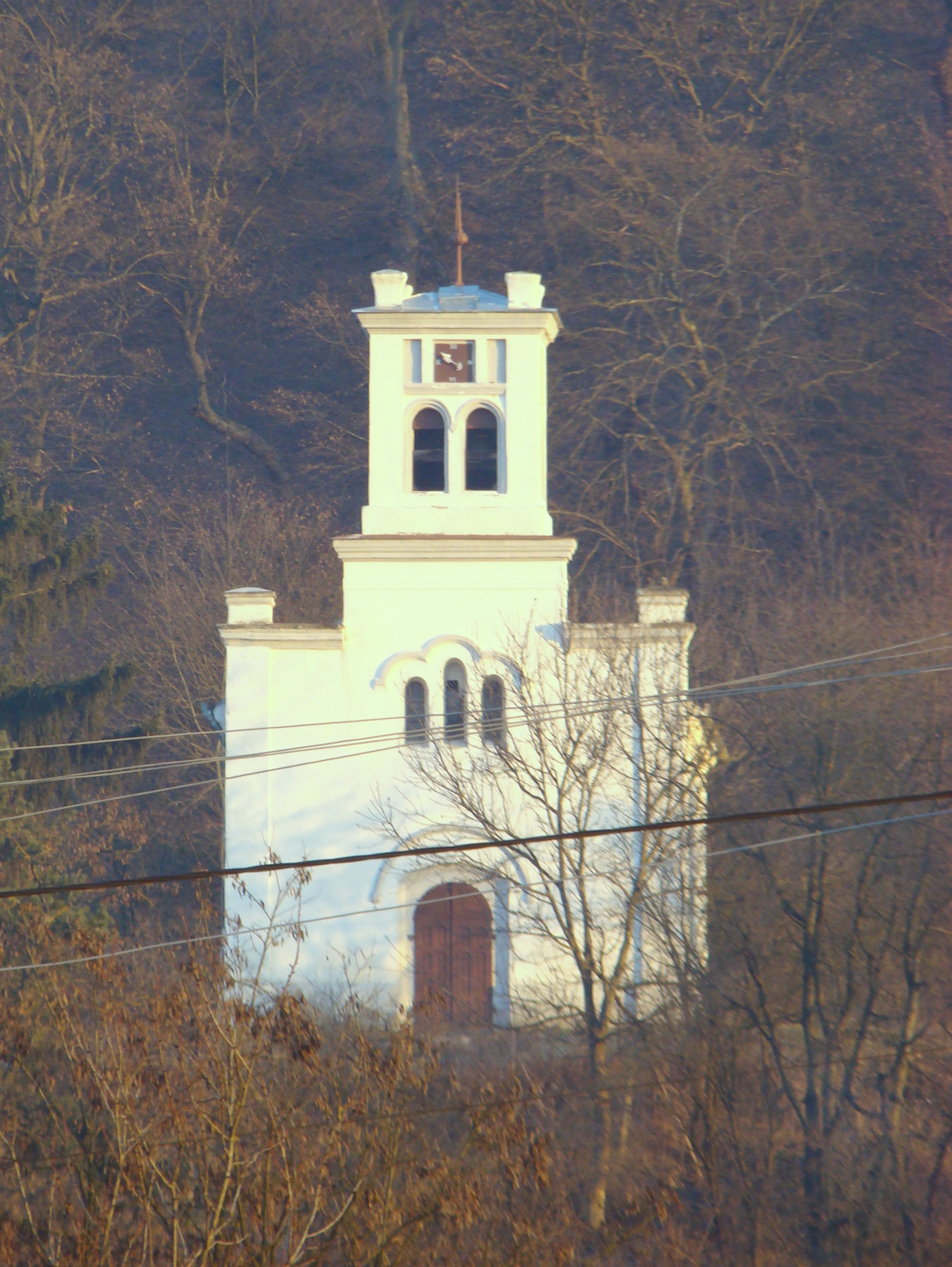 Reformed/Calvinist church in Hida/Hidalmás, Romania